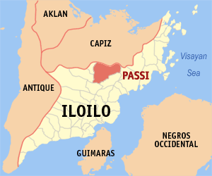 Map of Iloilo showing the location of Passi